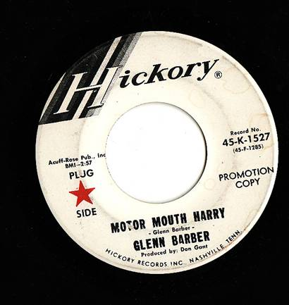 Motor Mouth Harry by Glenn Barber, Hickory 1969.